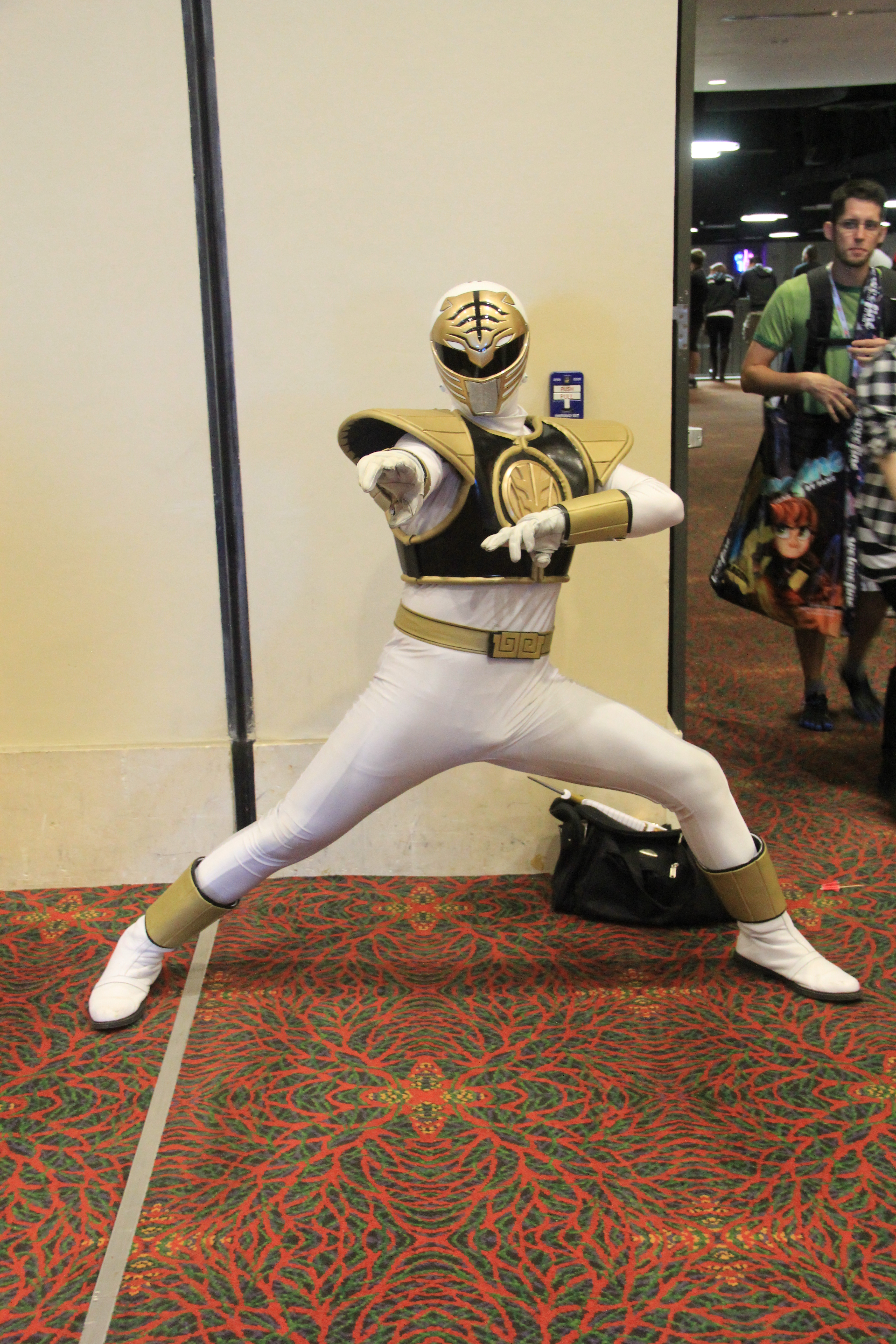 IMG_5532 Taken at PAX South 2016.